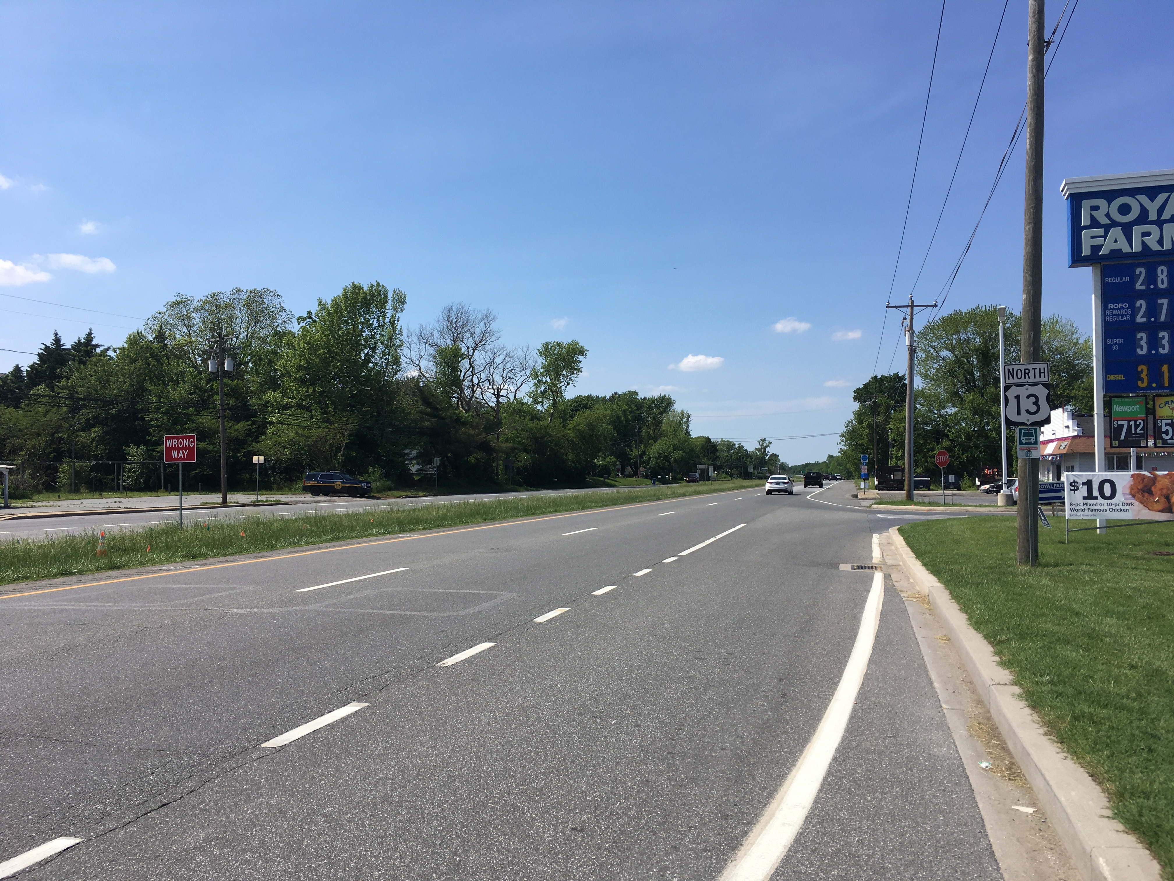 Northbound U.S. Route 13 (Dupont Highway) past the intersection with Delaware Route 42 (Main Street/Fast Landing Road) in Cheswold, Delaware